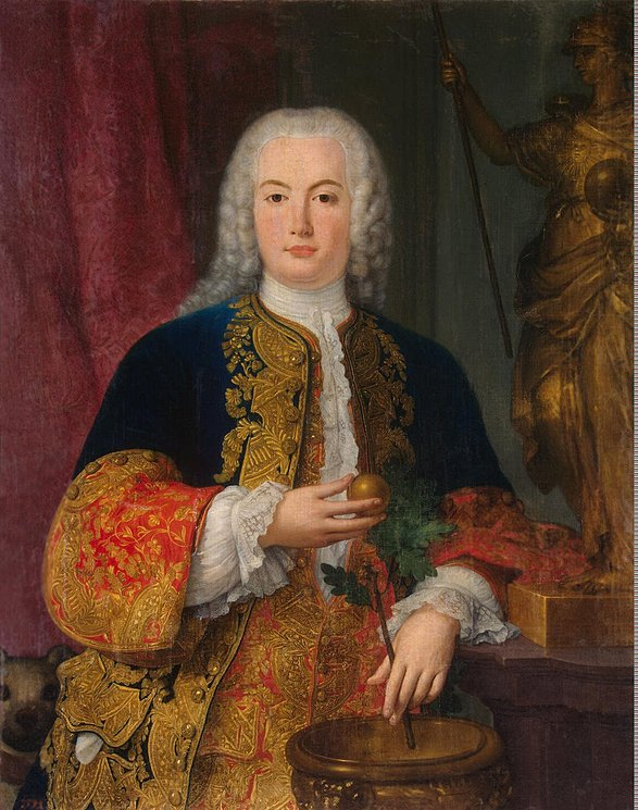 Portrait of king Peter III of Portugal (1717-1786)